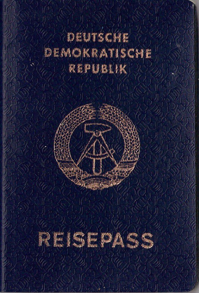 East German Passport